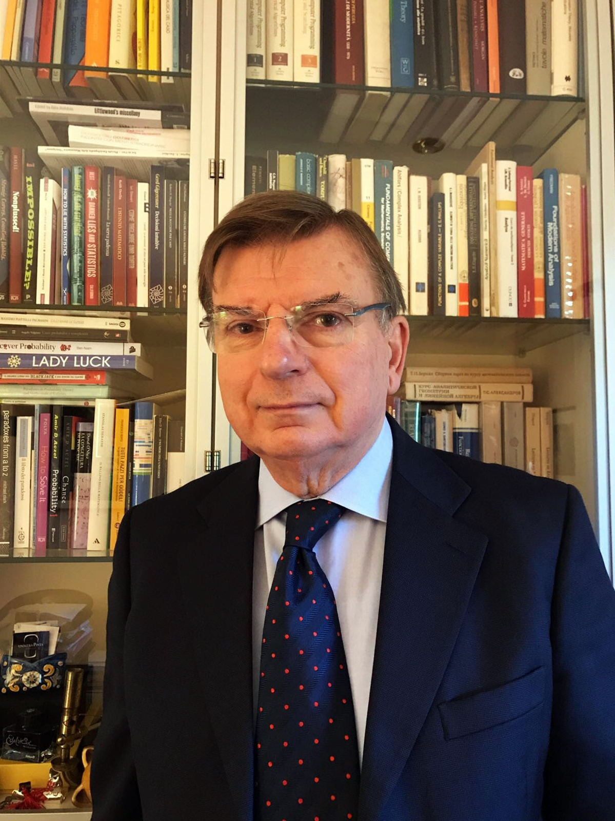 Aljoša Volčič 06.01.18 Cosenza